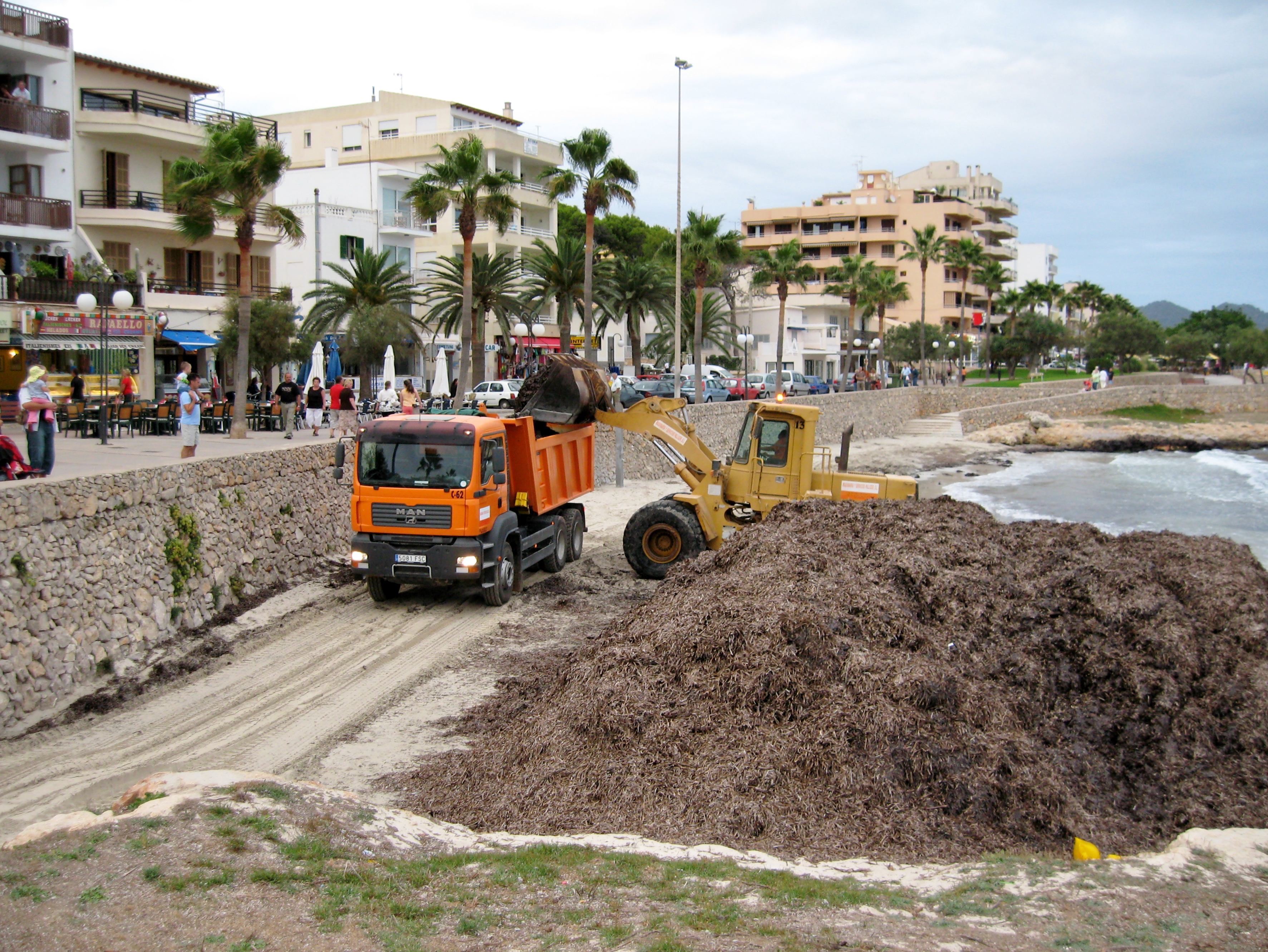 Beach of Cala Millor, Son Servera, Mallorca, Spain